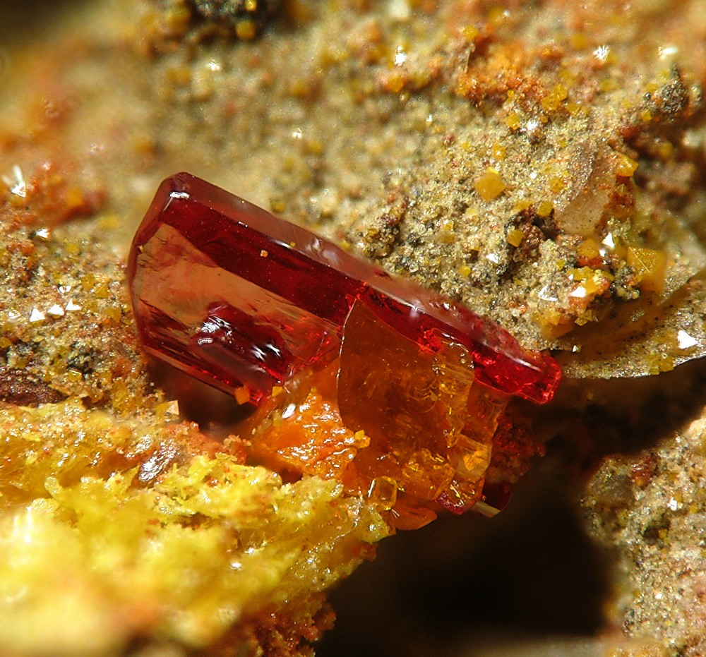 Phoenicochroite Locality: San Francisco Mine (Beatrix Mine), Caracoles, Sierra Gorda District, Tocopilla Province, Antofagasta Region, Chile (Locality at ) Deep red phoenicochroite with orange-yellow schwartzembergite. Both species were microprobed. Picture width 1.5 mm. Collection and photograph Christian Rewitzer